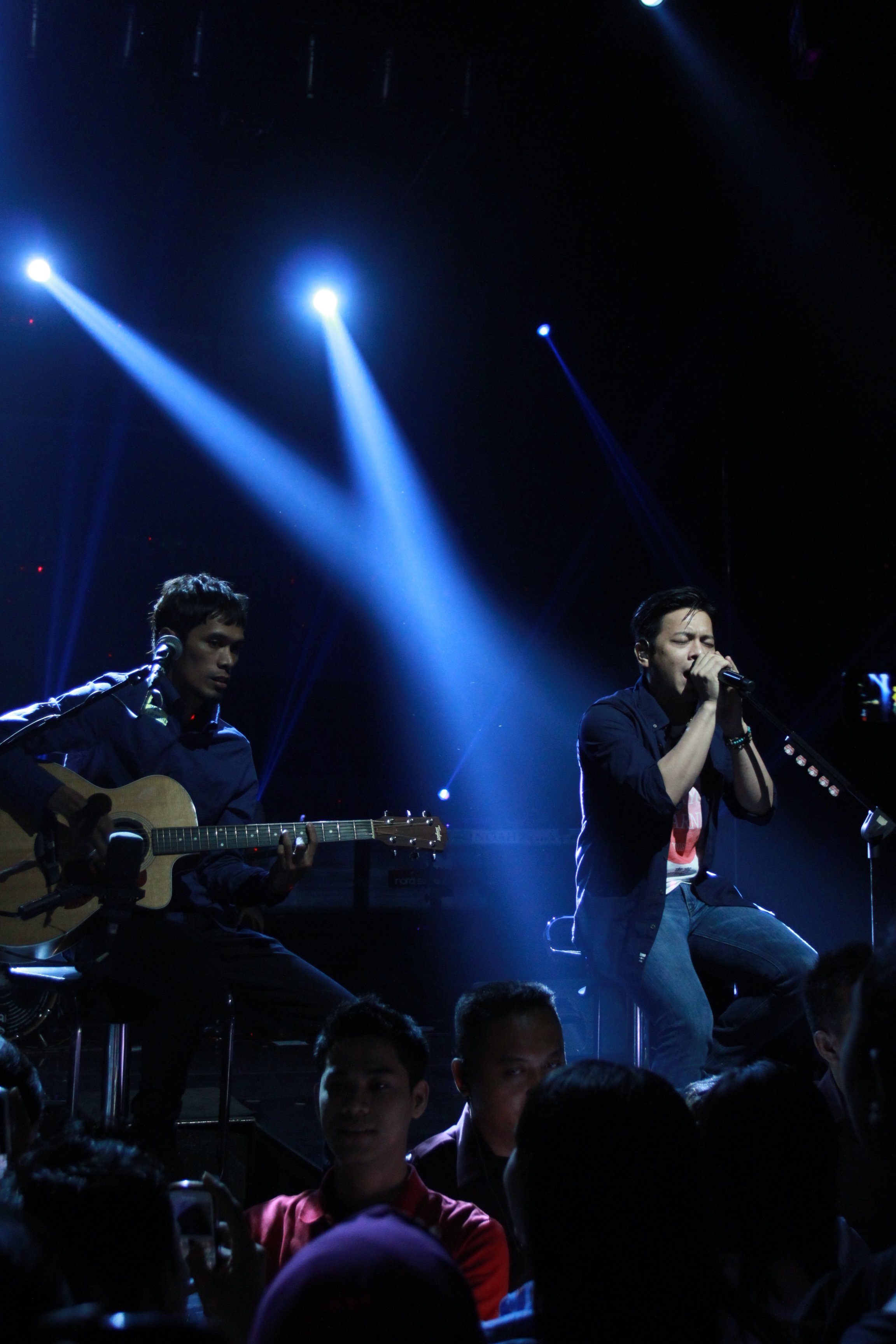 Ariel (Nazril Irham) and Lukman Hakim in a concert